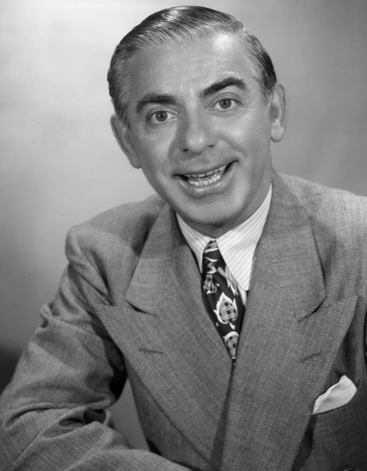 Publicity photo of Eddie Cantor from his radio program.